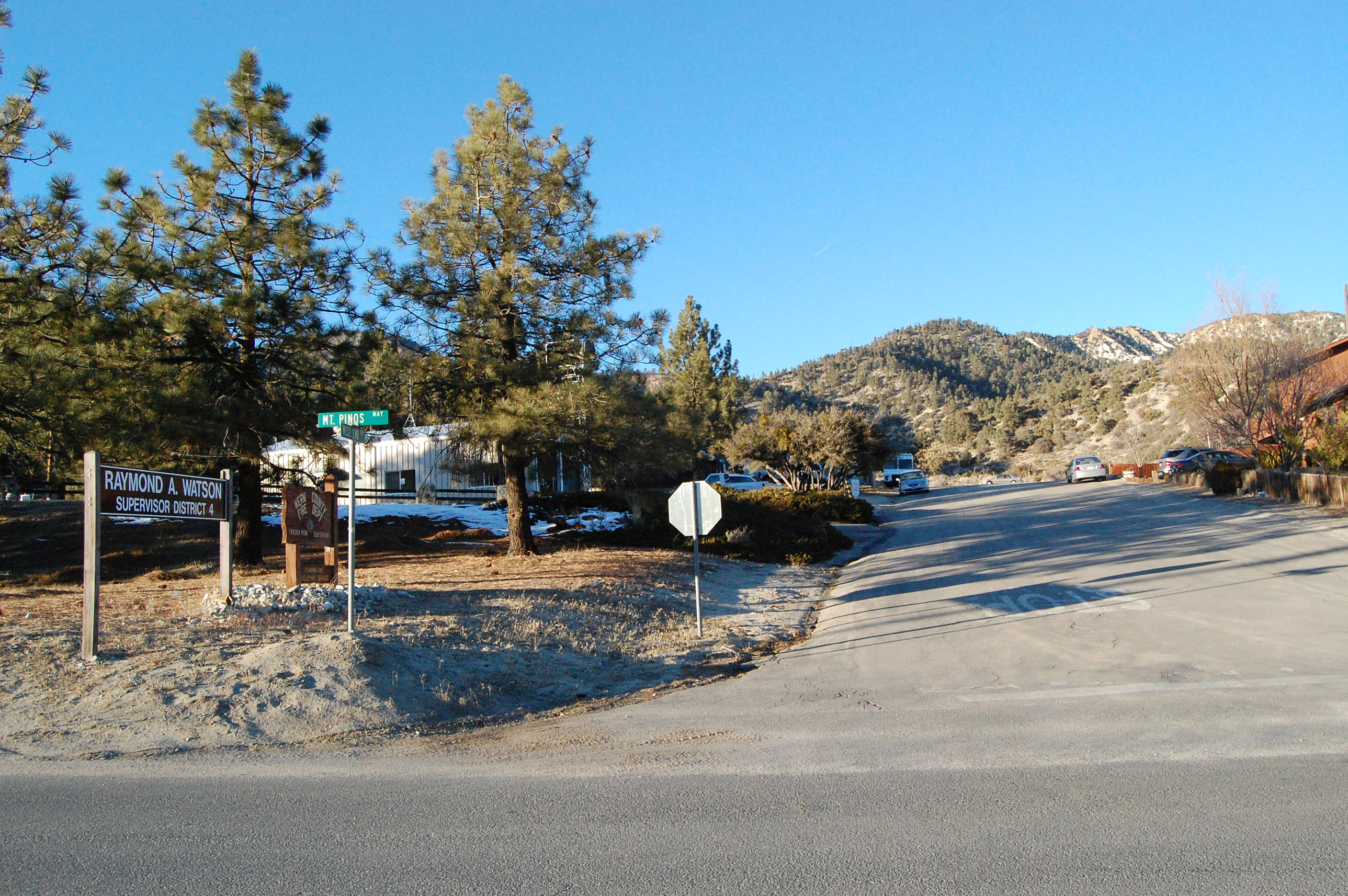 Kern County Fire Department, Frazier Park, California fire station